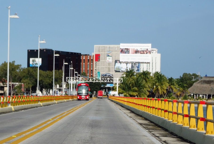 isla aguada